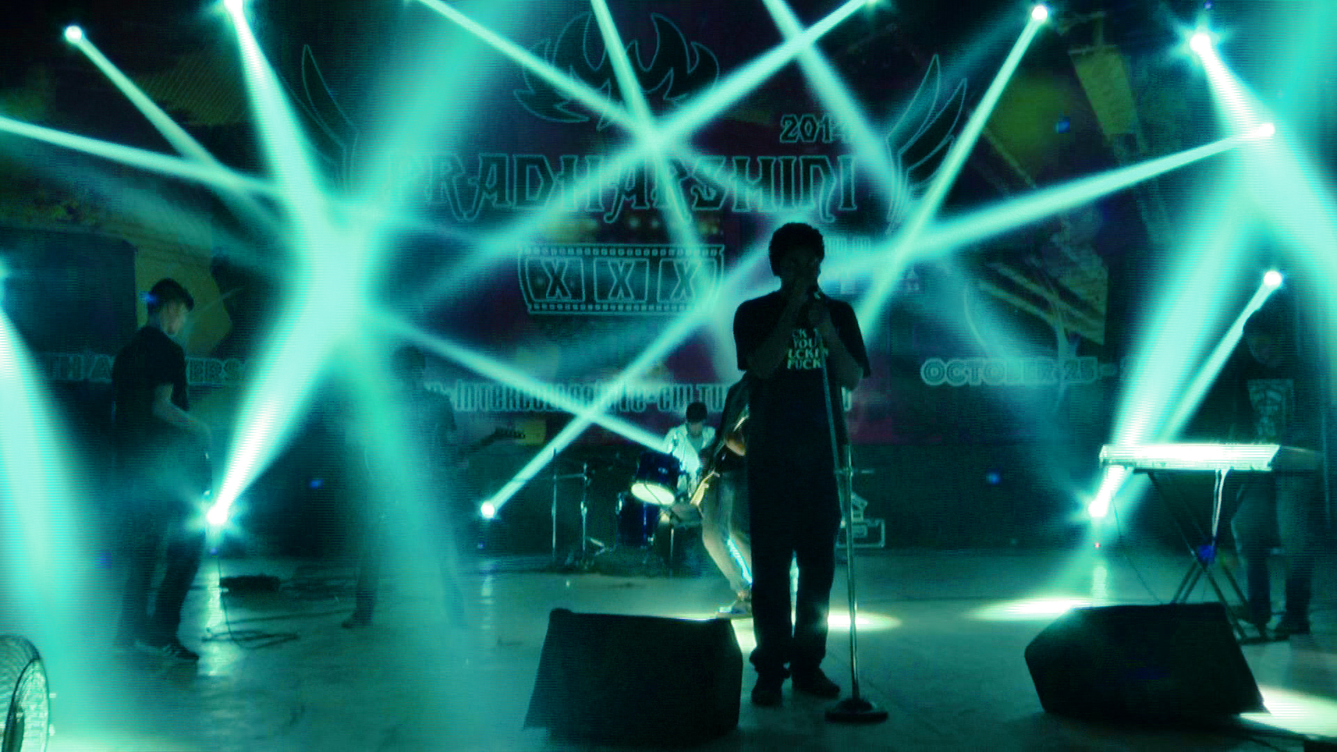 Western Music at Pradharshini 2014